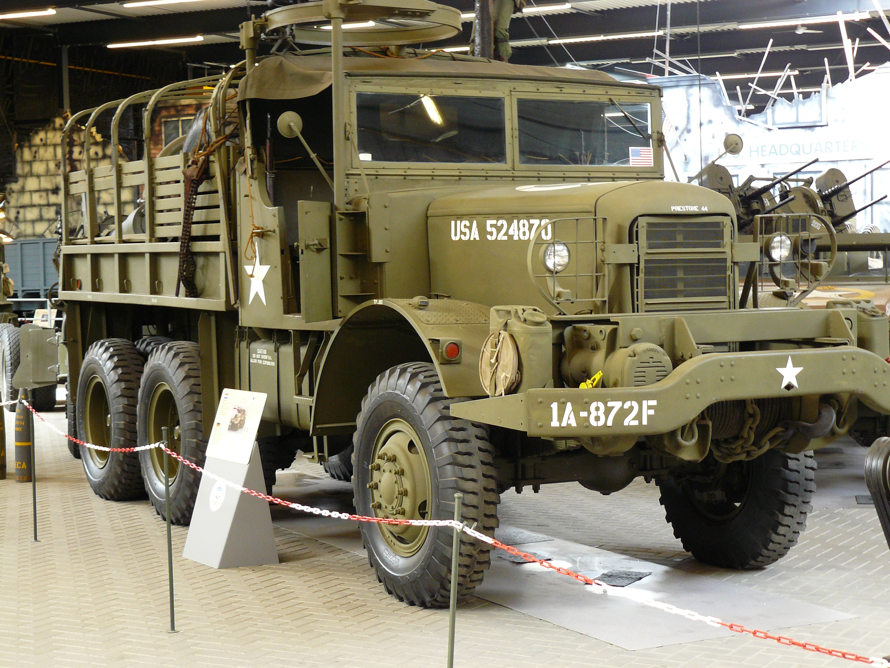 Mack NO-6, artillery tractor. As seen in Overloon War Museum, Netherlands. April 2008